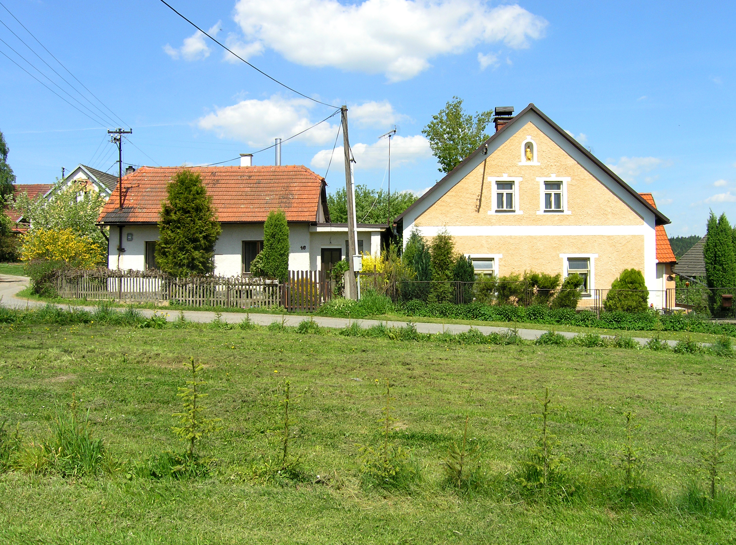 Middle part of Zahrádka, part of Vojkov village, Czech Republic